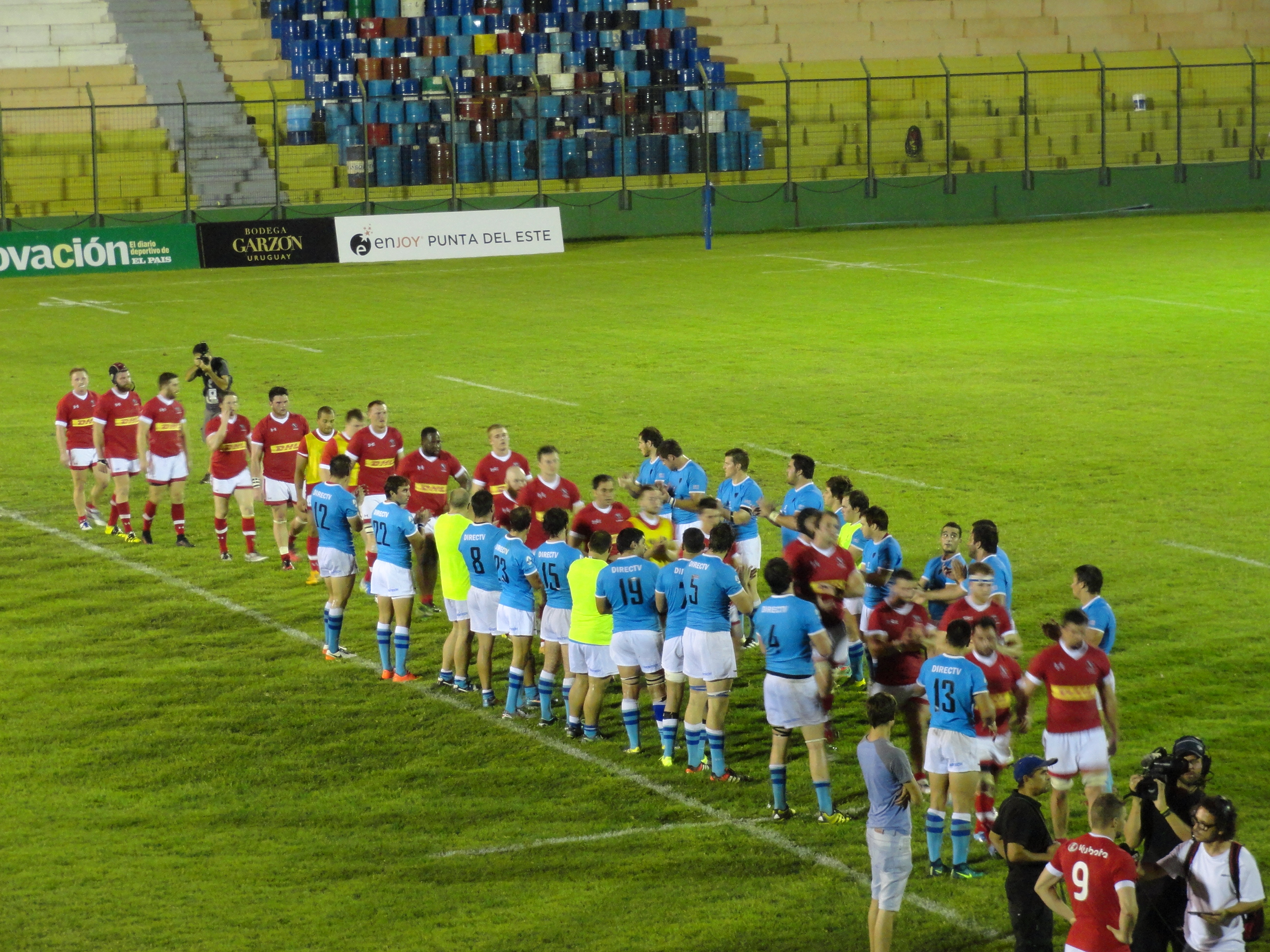 Uruguay vs Canada rugby union match at the 2017 Americas Rugby Championship.